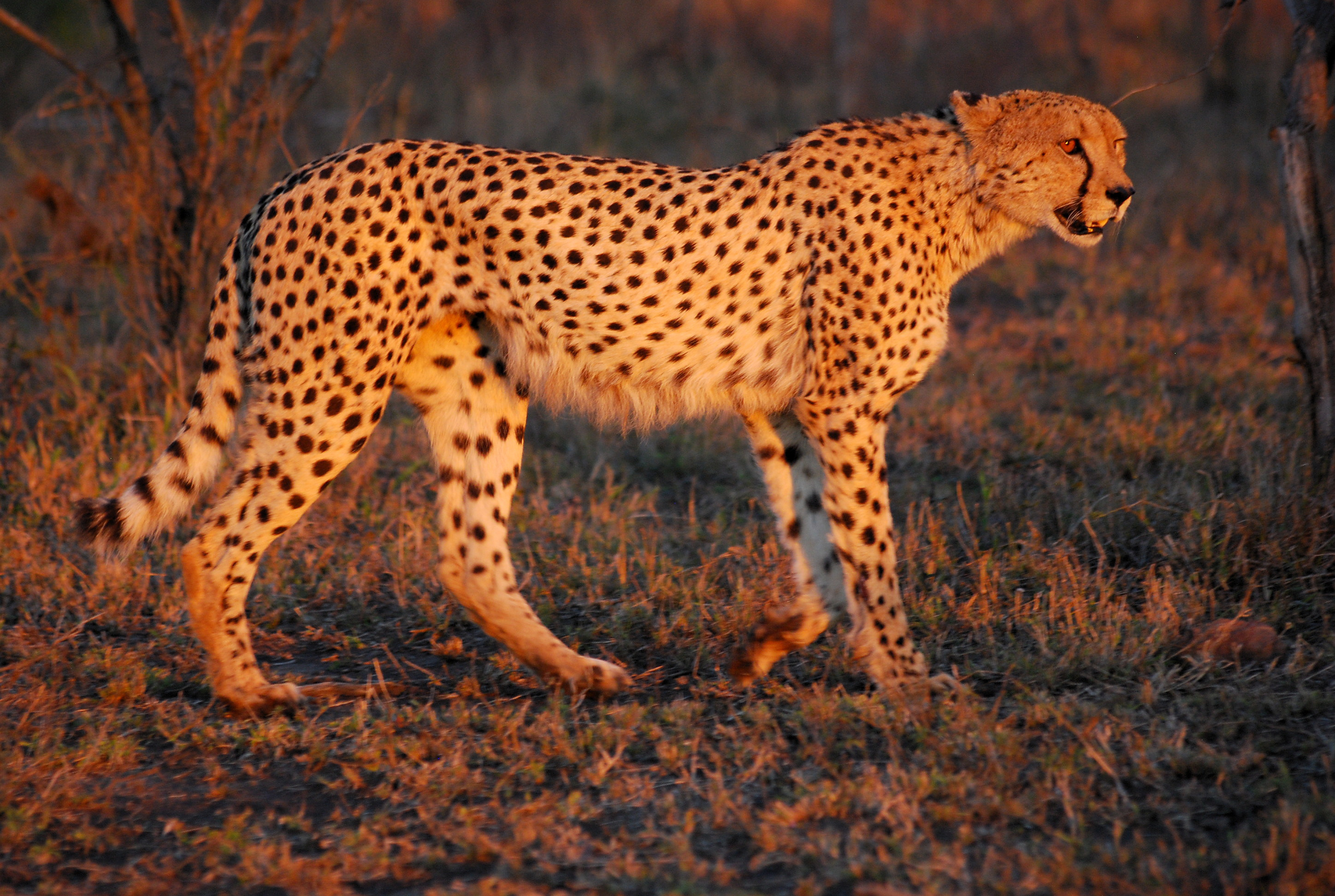 South African cheetah (Acinonyx jubatus jubatus) in the Hluhluwe-Umfolozi Game Reserve, South Africa at sunset.